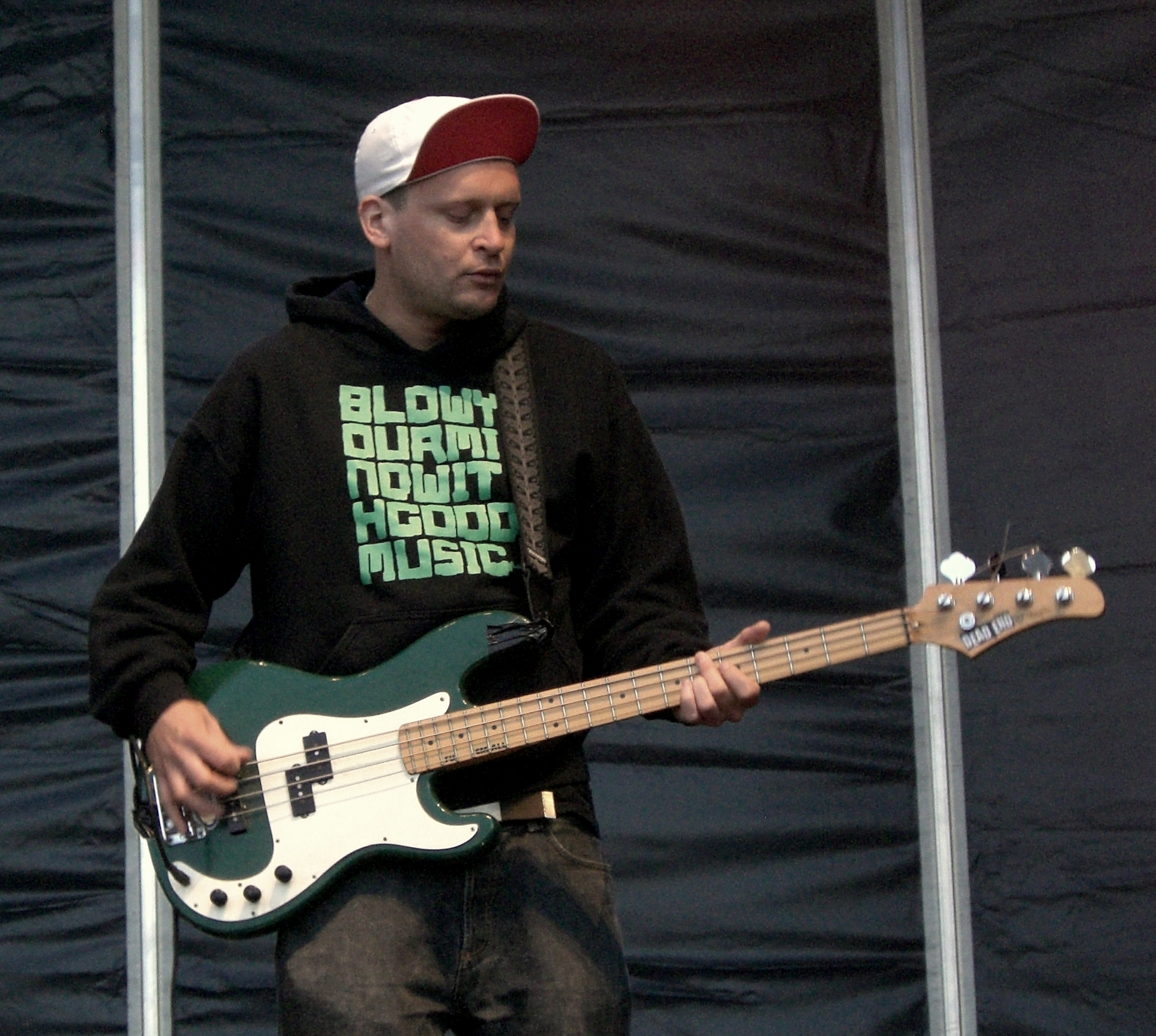 German musician and record label owner Lars Lewerenz playing with ClickClickDecker at Obstwiesenfestival, July 18, 2009